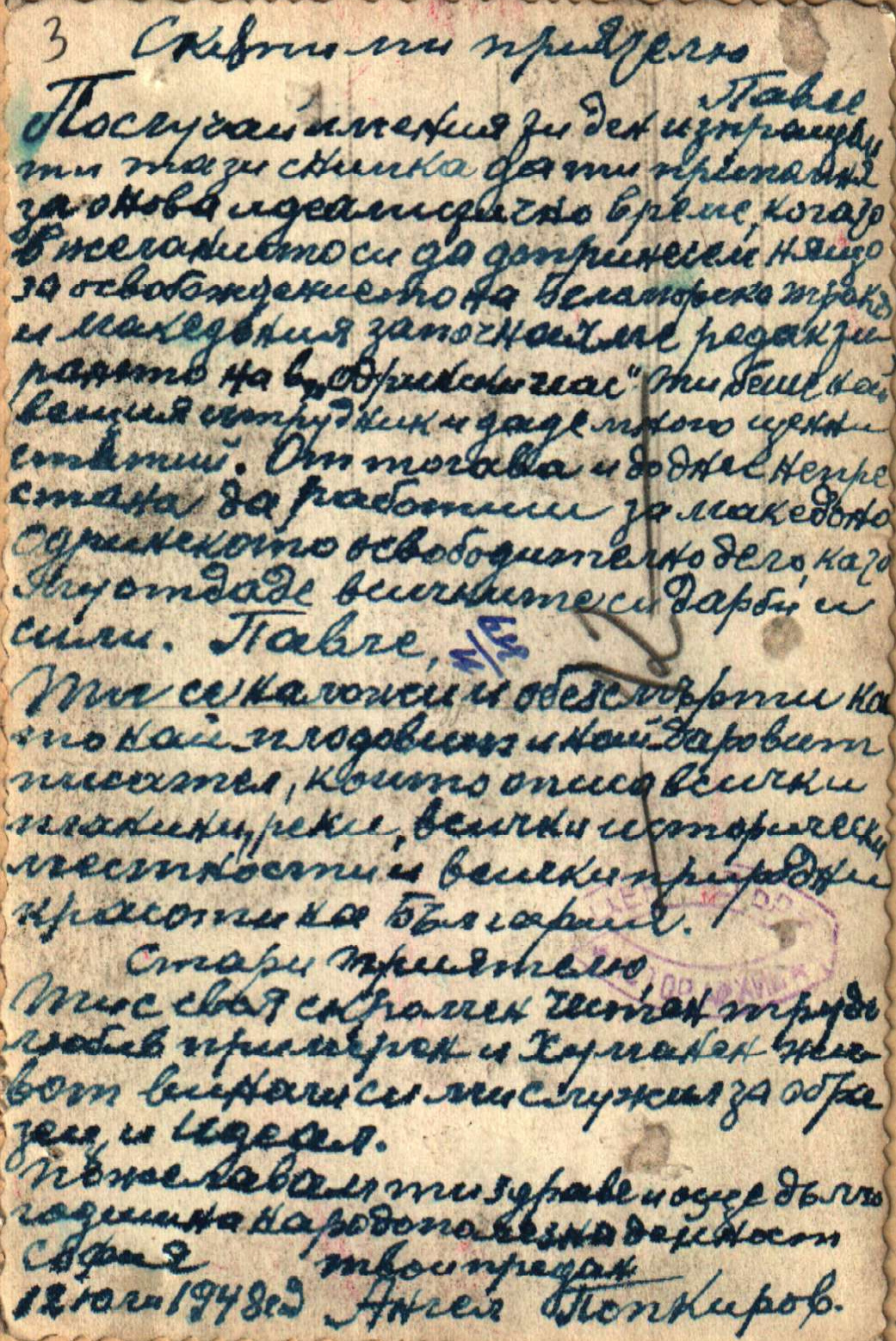 A letter from Angel Popkirov to Pavel Deliradev.